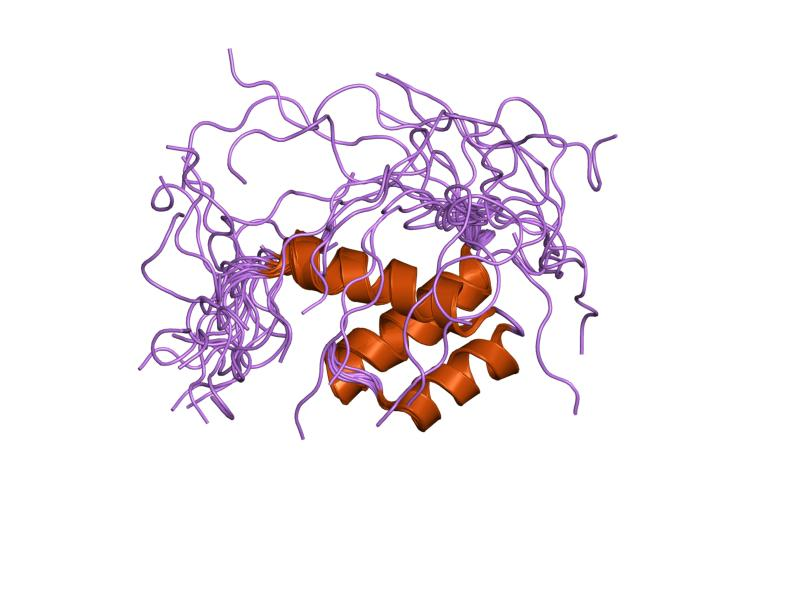 Cartoon representation of the molecular structure of protein registered with 1wi3 code.